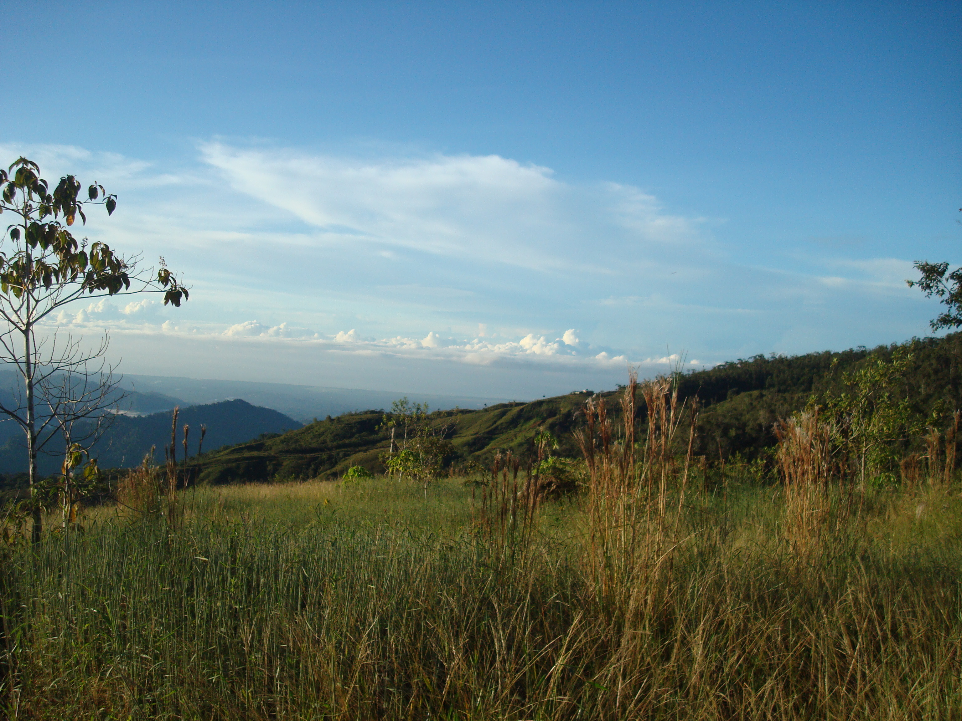 Pacific Ocean in the distance, as see from Tarrazu